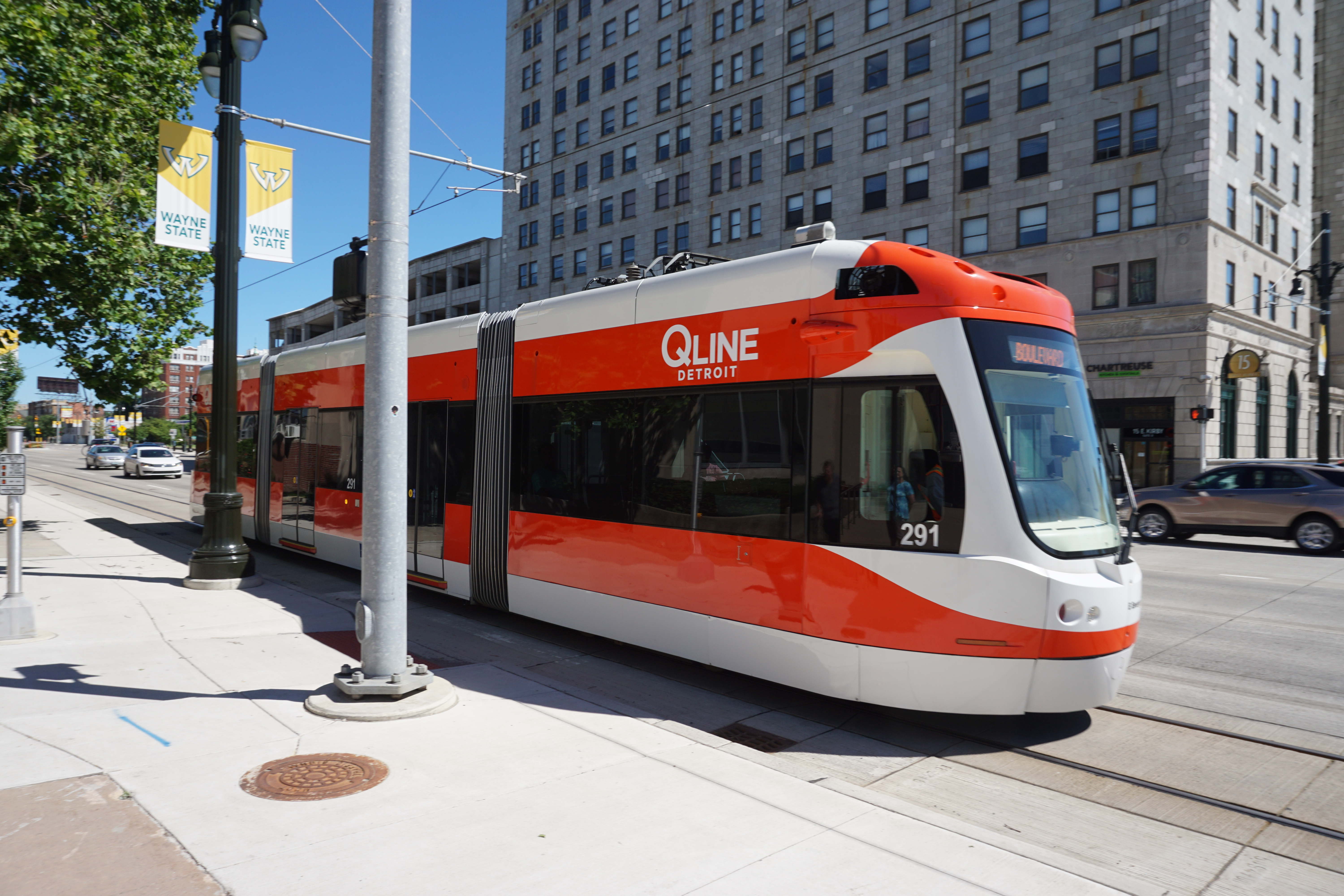 A QLine Brookville Liberty Modern Streetcar in Detroit, Michigan (United States).